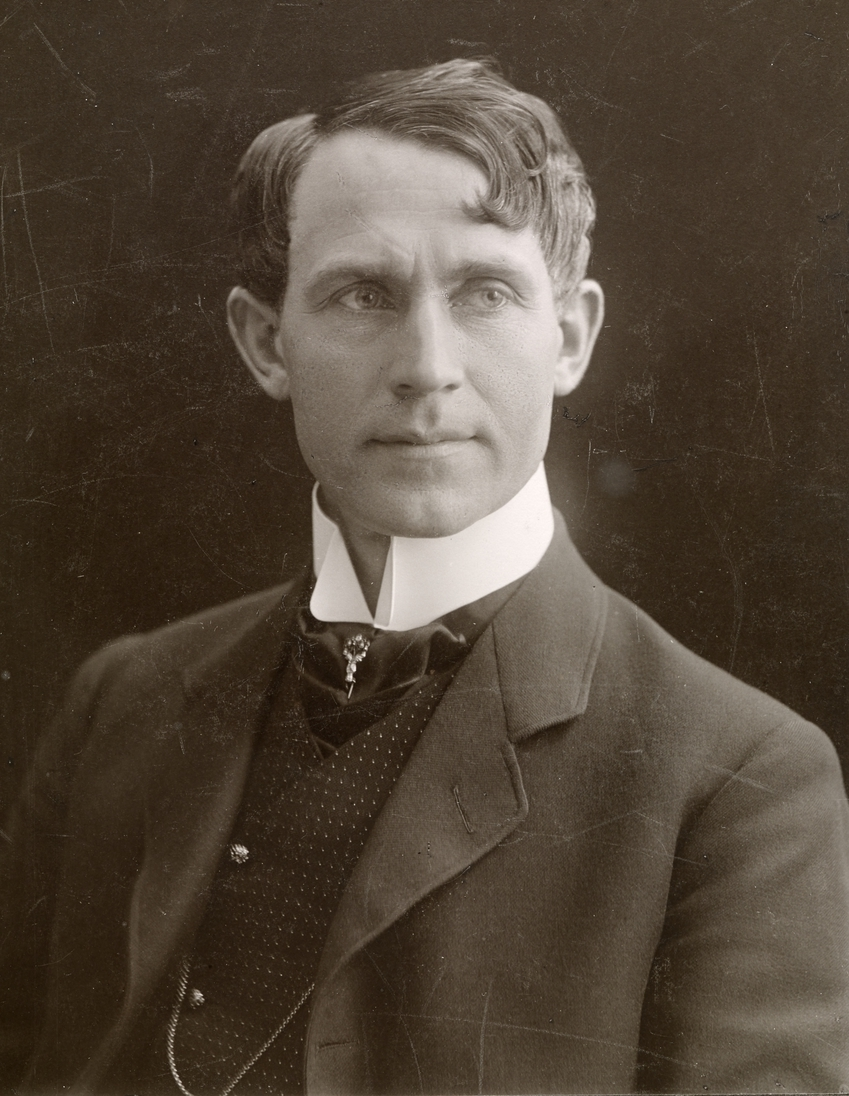 Depicted person: Sigurd Eldegard – Norwegian actor